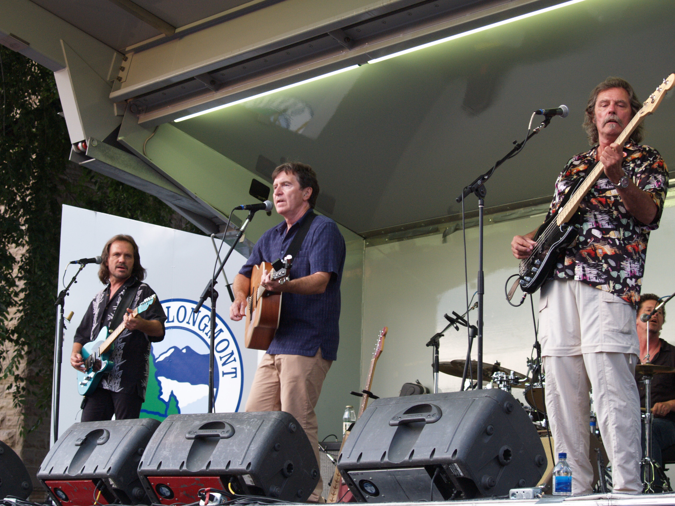 Pure Prairie League at an outdoor performance in Longmont, Colo., on 23 July 2010.